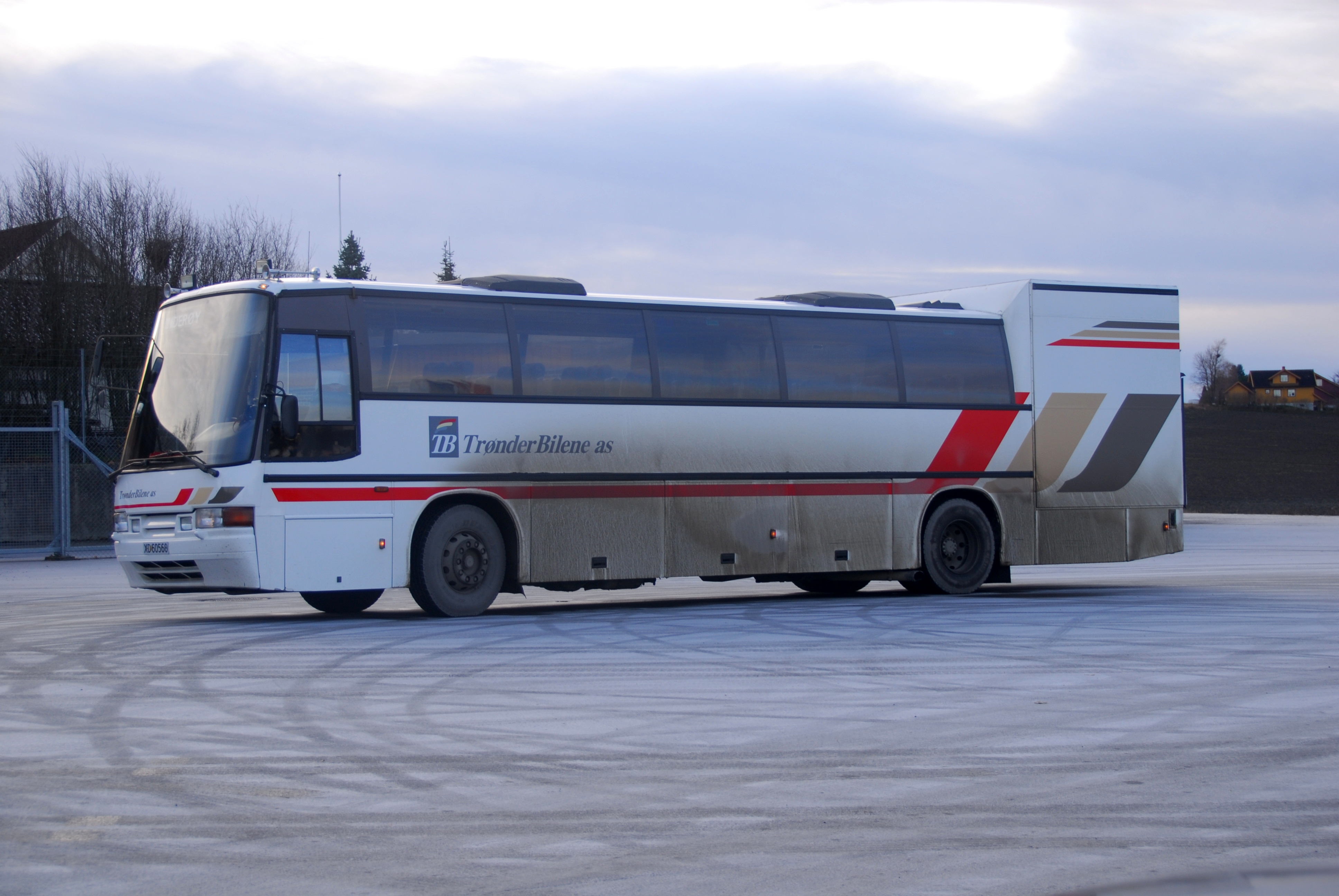 Trønderbilen buss/truck